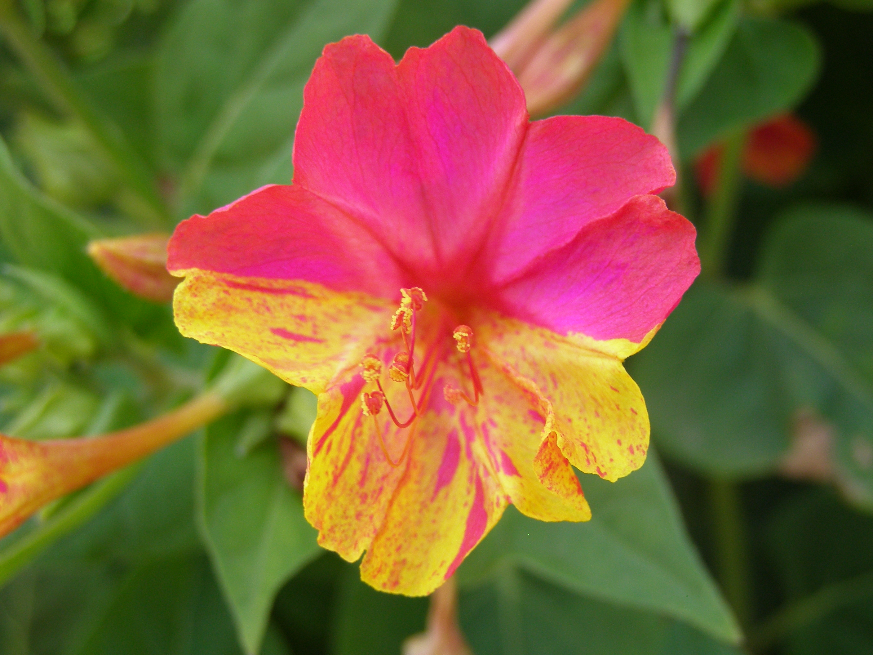 Pink and yellow Mirabilis jalapa. Photo taken in Rogoznica, Croatia summer 2007